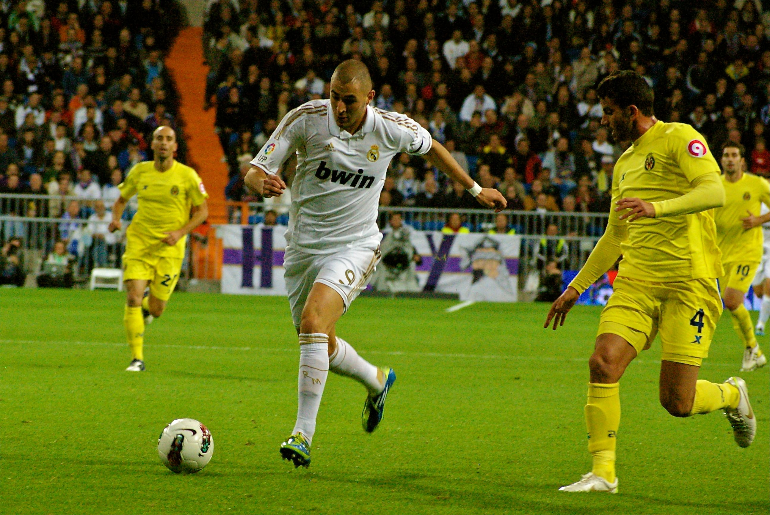 Karim Benzema against Mateo Musacchio, Real Madrid - Villarreal